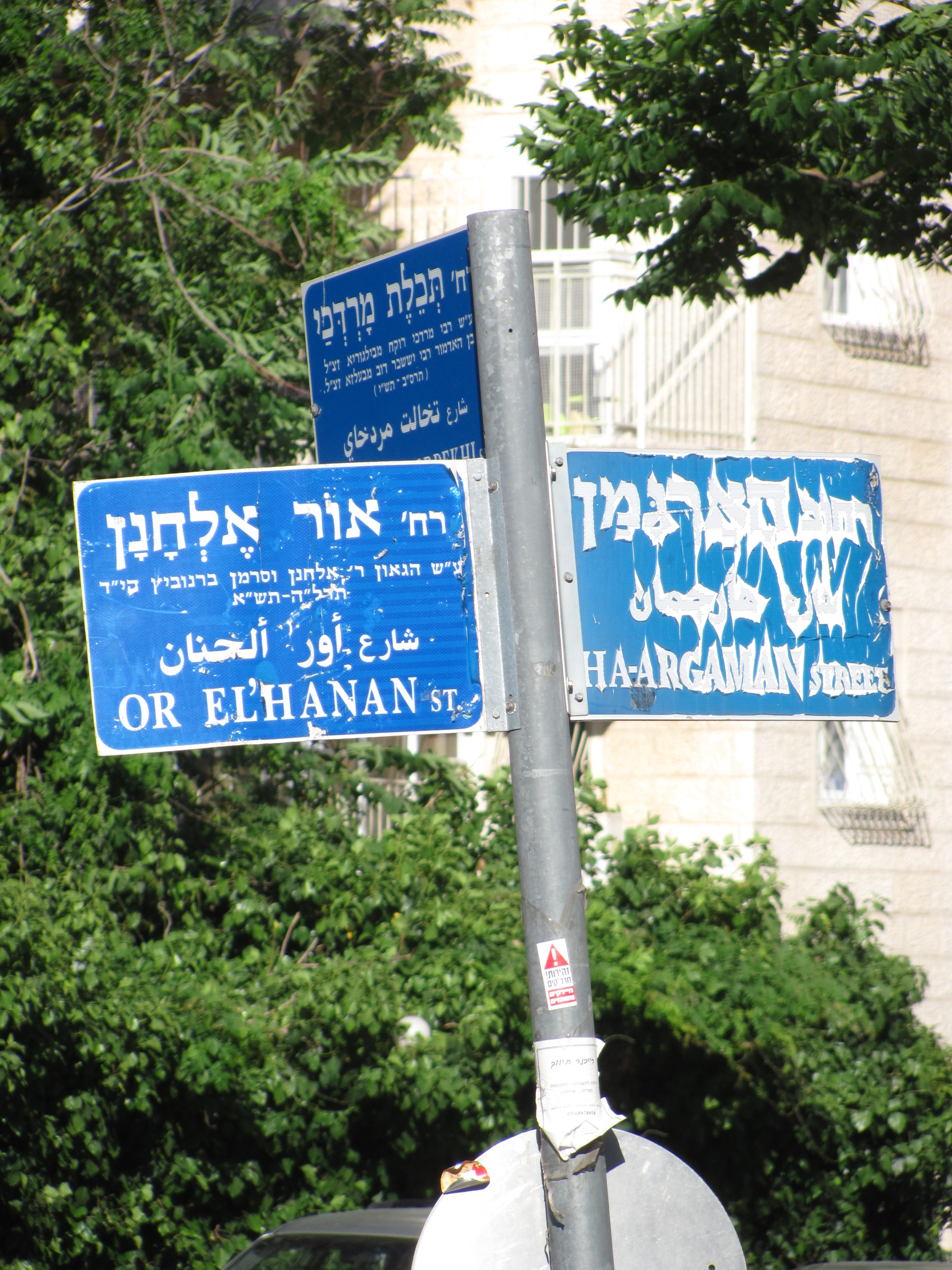 Ohr Elchanan Street sign, Romema, Jerusalem